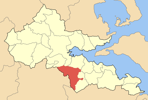 Locator map of Amfikleias municipality (Δήμος Αμφίκλειας) at Fthiotida perfecture, Greece.